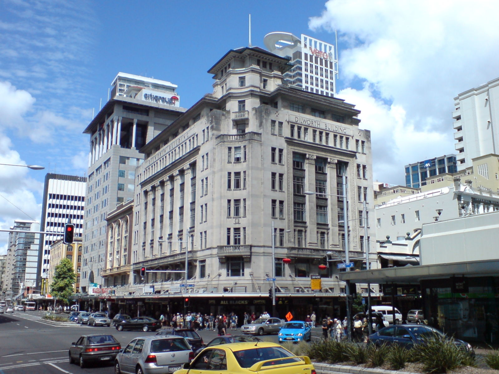 The Dilworth Building on the corner of Queen Street and Customs Street, Auckland City, New Zealand. Seen here from the north-west (view along Customs Street), this building was once supposed to be one half of a 'gateway' to the city, but the mirroring building opposite was never built.